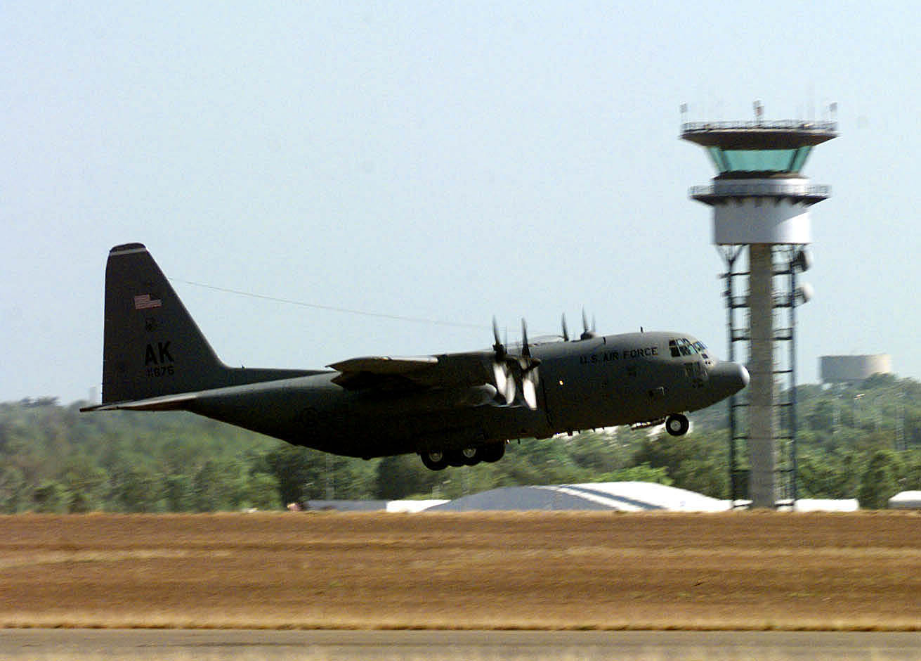 A C-130 Hercules from the 517th Airlift Squadron, Elmendorf Air Force Base, Alaska, takes off for a morning mission to Dili, East Timor. The Air Force is providing logistics, communications, and planning support to International Forces East Timor. INTERFET is providing peacekeeping, humanitarian assistance and force protection to East Timor.